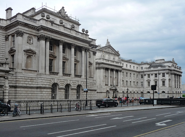 Former Inland Revenue Building, Lancaster Place